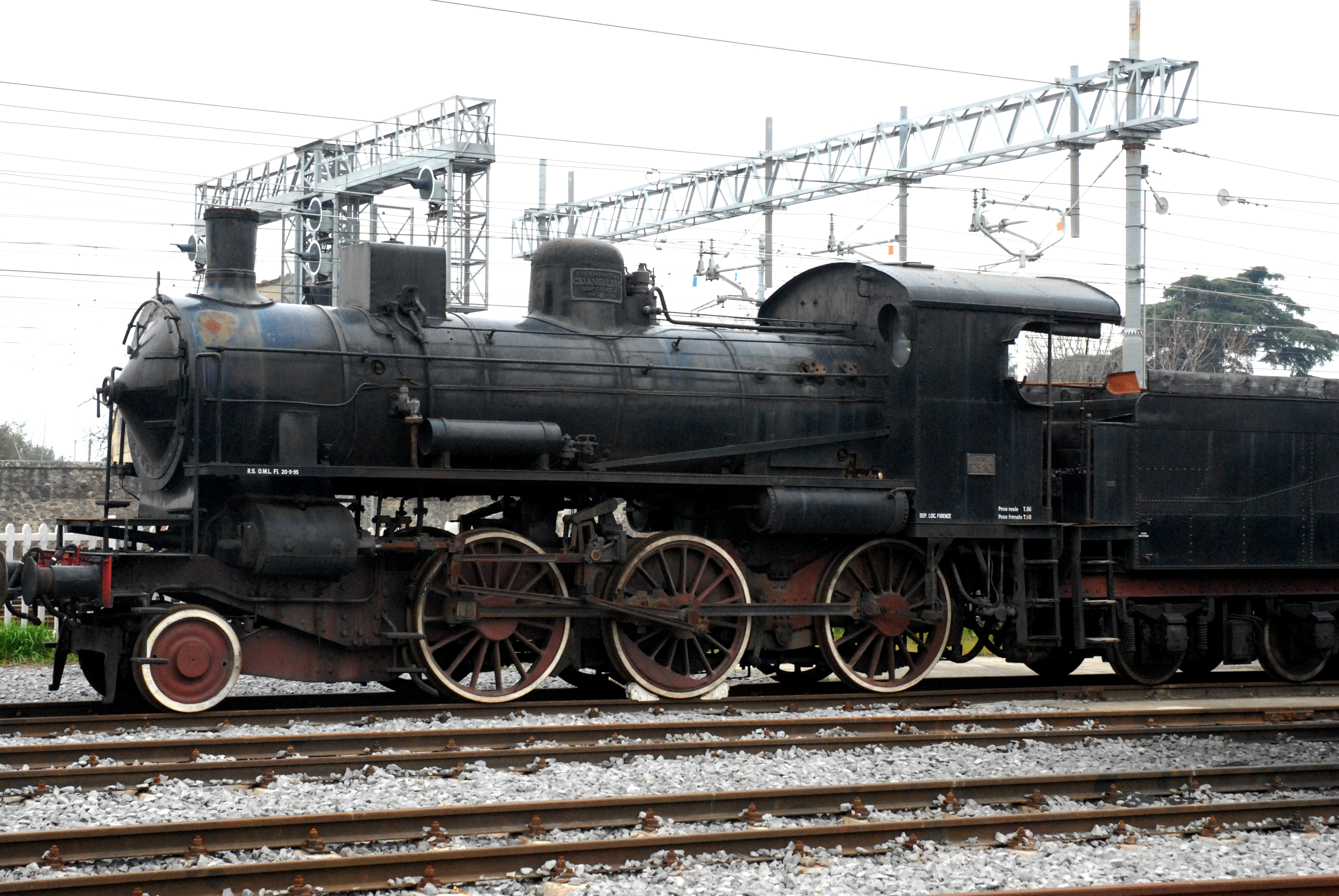 Photos from the FS railway deposit in Pistoia, Italy. FS group 625 unit n.142